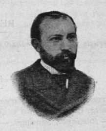 Francesc Bàdenes i Dalmau, in L'Atlàntida magazine of 15.3.1897